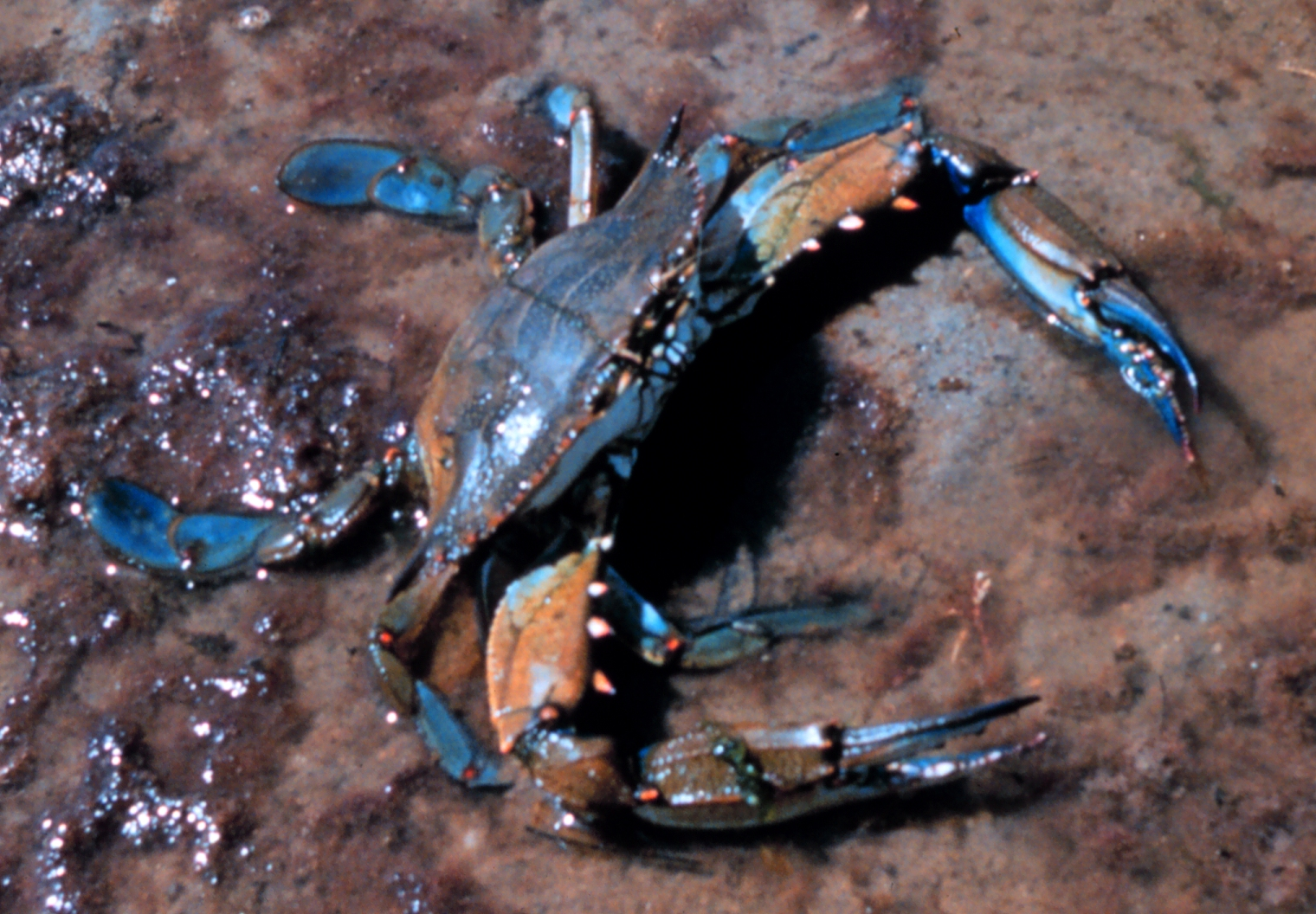 Narragansett Bay National Estuarine Research Reserve The blue crab - Callinectes sapidus - is one of many species of crabs found in f Rhode Island waters Image ID: nerr0394, NOAA's Estuarine Research Reserve Collection Location: Narragansett Bay, Rhode Island